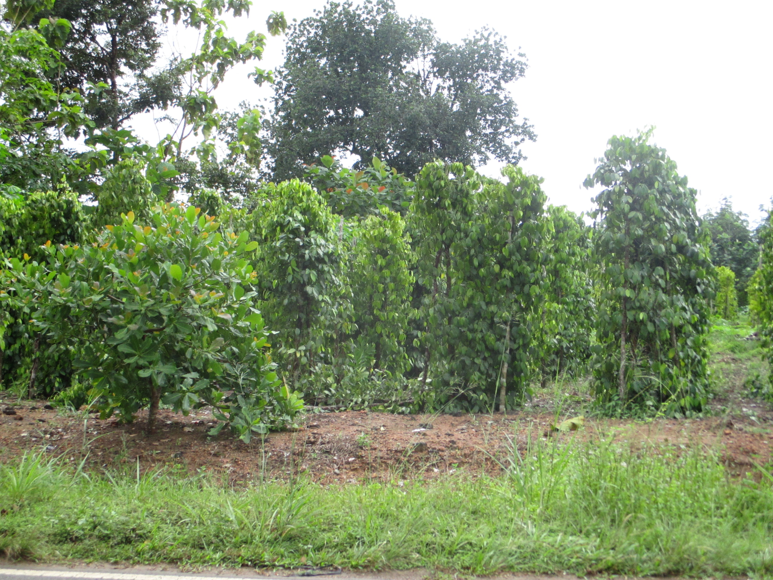 White Pepper Plantation in Bangka